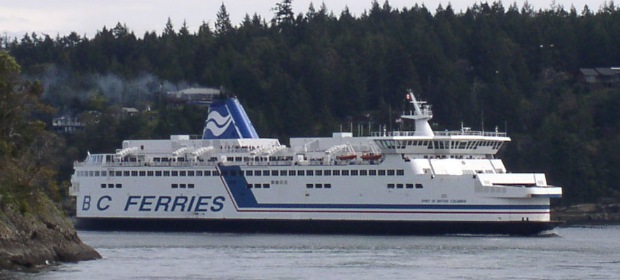 BC Ferry Spirit of British Columbia IMO number: 9015668 Callsign: VOSM